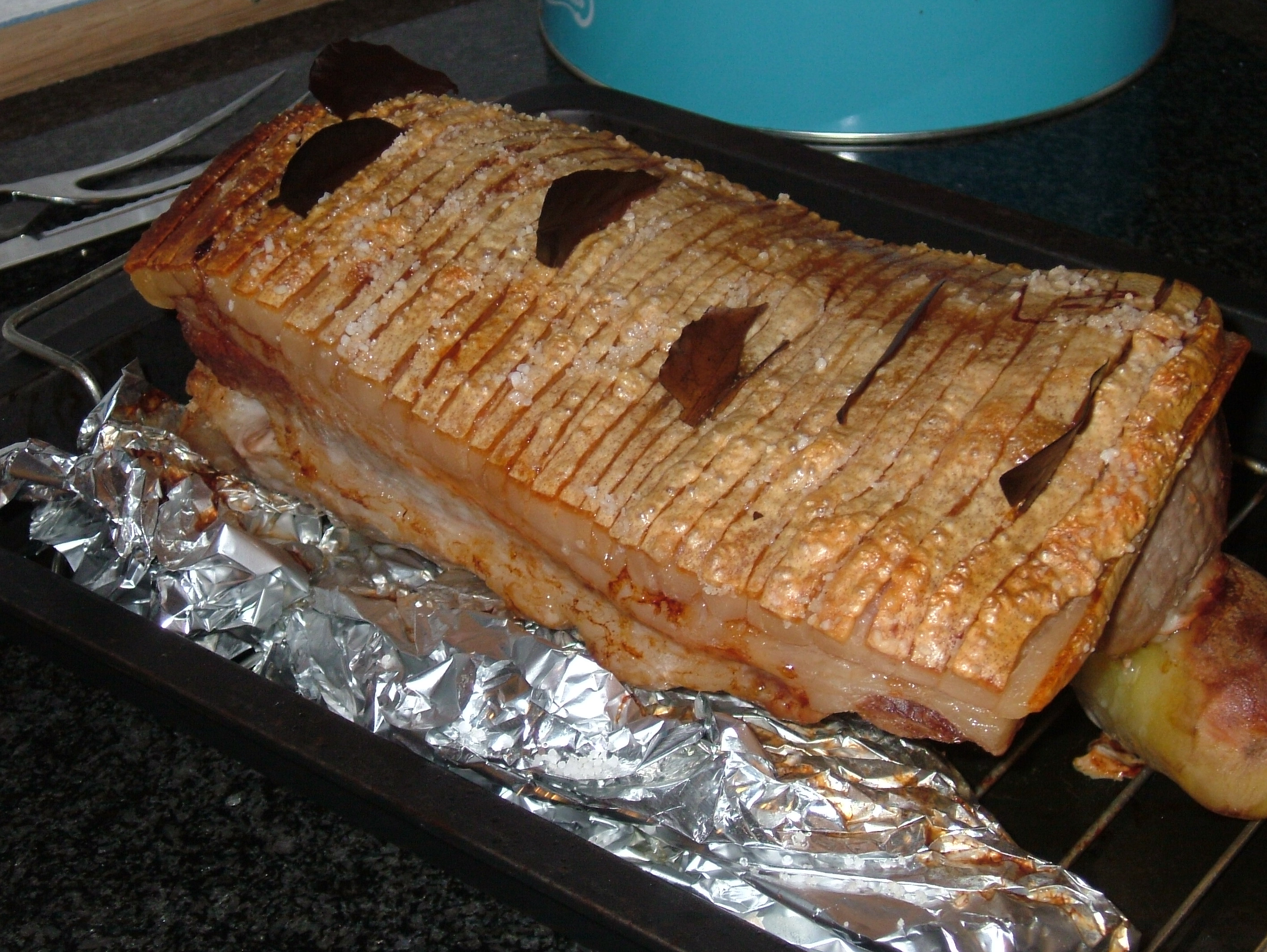 Roasted pork with rind as eaten in Denmark